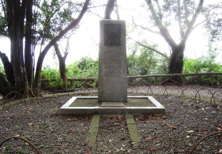 The celebration monument of Kathleen Mary Drew-Baker（Kumamoto Prefecture Uto City）